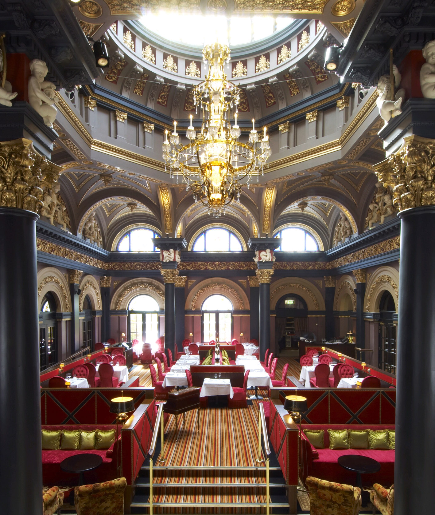 In 2006 Marcus Notley completed the design of Ireland’s largest crystal chandelier. It was specially commissioned by the 5 star Merchant Hotel in Belfast. This lavish chandelier is 2 stories in height. It is constructed with over 2600 pieces of crystal on a gilded gold metalwork frame, all of which is suspended from a glass dome above the hotel's Great Room restaurant.